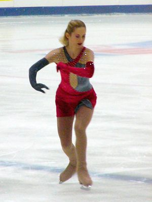 Cindy Carquillat during her free skate at the 2004 Junior Grand Prix event in Germany